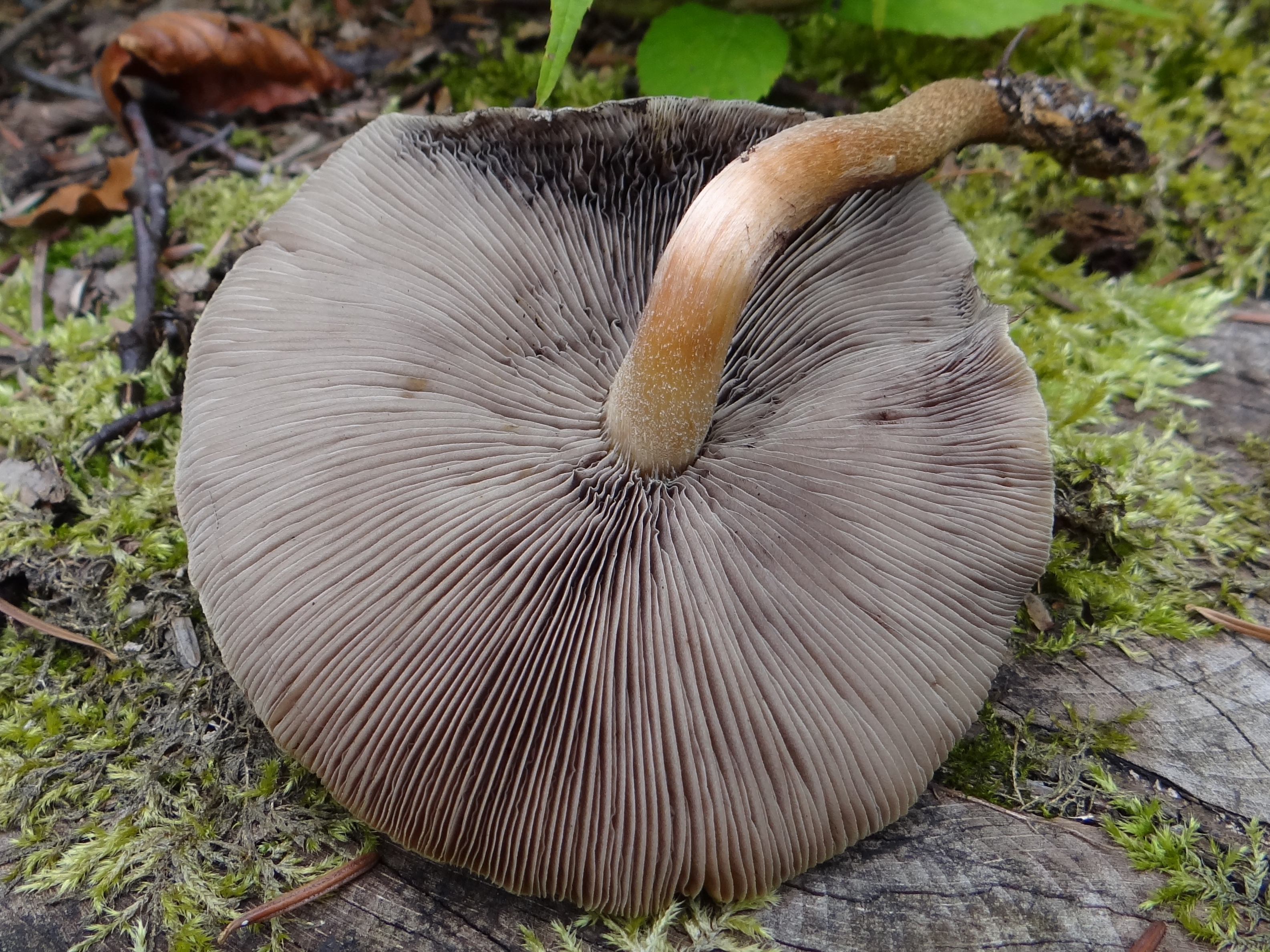 Hypholoma lateritium